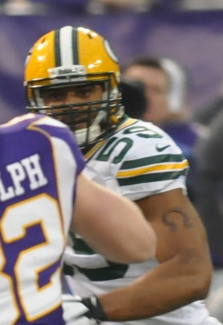 Minnesota Vikings tight end Kyle Rudolph runs the ball against two Green Bay Packers defenders, including #59 Brad Jones. Watching is Vikings wide receiver #84 Michael Jenkins.